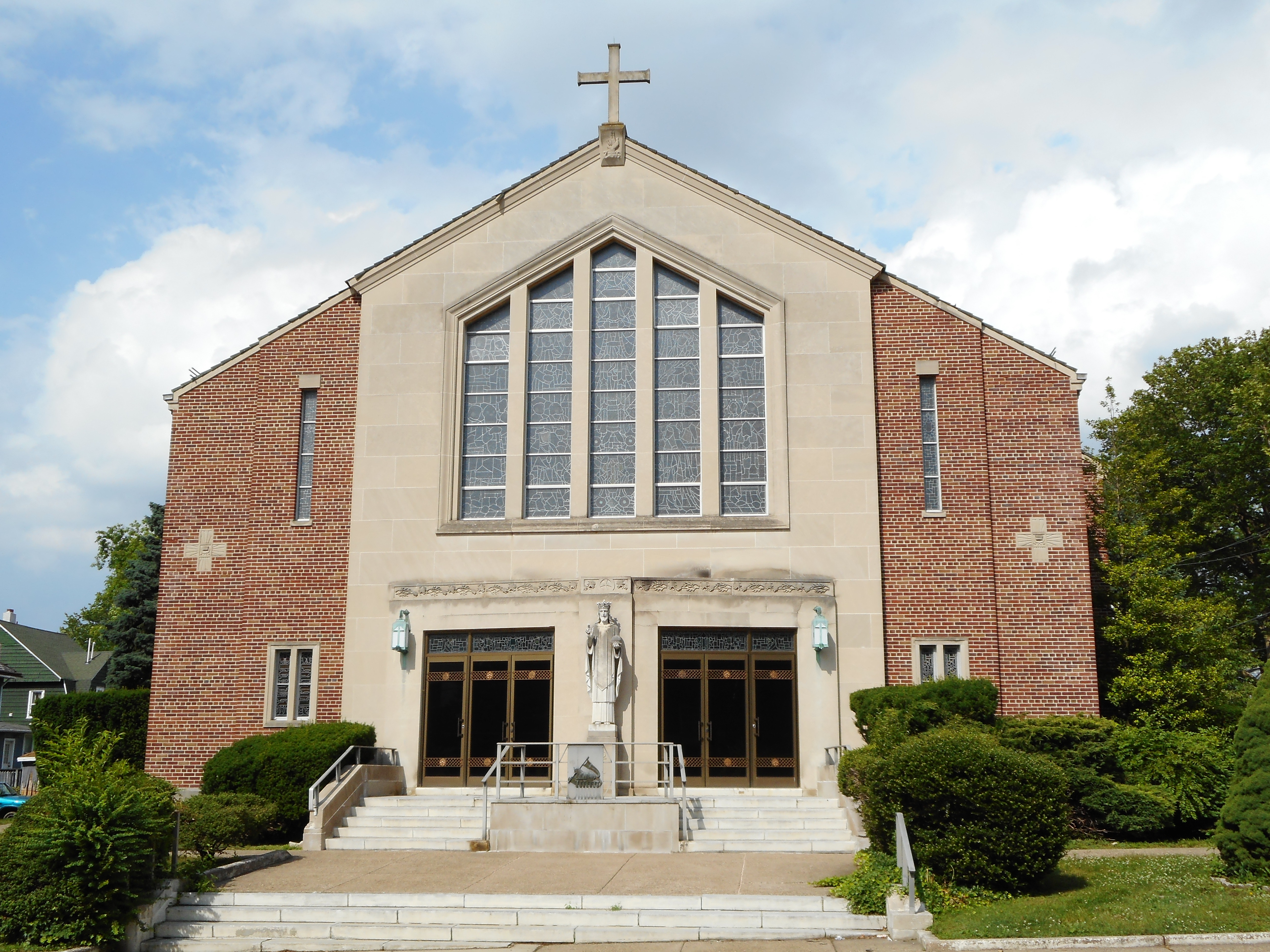 The "new" Holy Spirit Roman Catholic Church in Sharon Hill, Delaware County, Pennsylvania. The parish was founded in 1892 and this new building right next door to the older still standing church was built in 1960. The parish was merged with St. George Parish in Glenolden, just 1.3 miles away in 2014, but a local news article said the last mass was held in January 2015. This building really doesn't look abandoned however, but is very well kept up. The photograph was taken on a Sunday afternoon and I didn't see anybody, but I'd guess services are still held occasionally